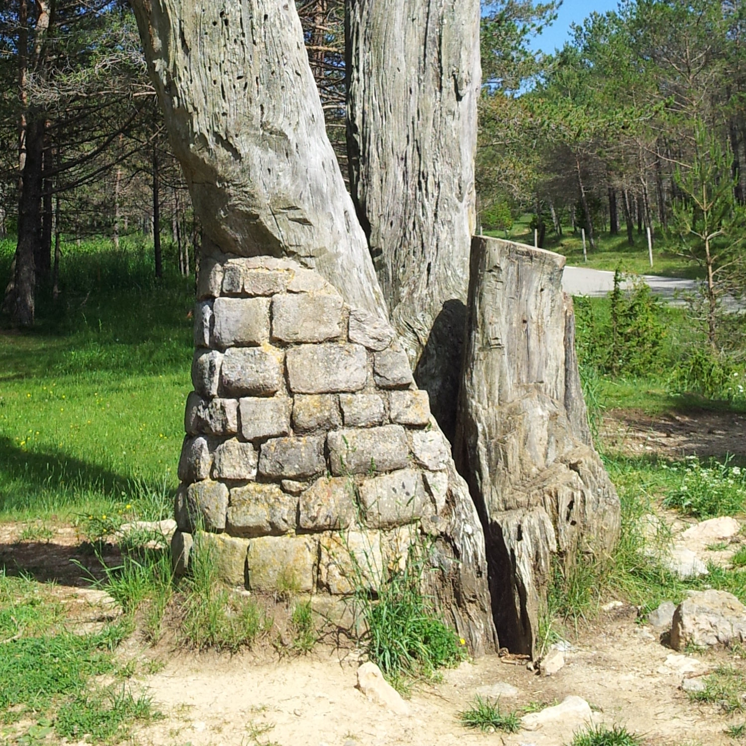 Bottom of Pi de les Tres Branques in June 2015